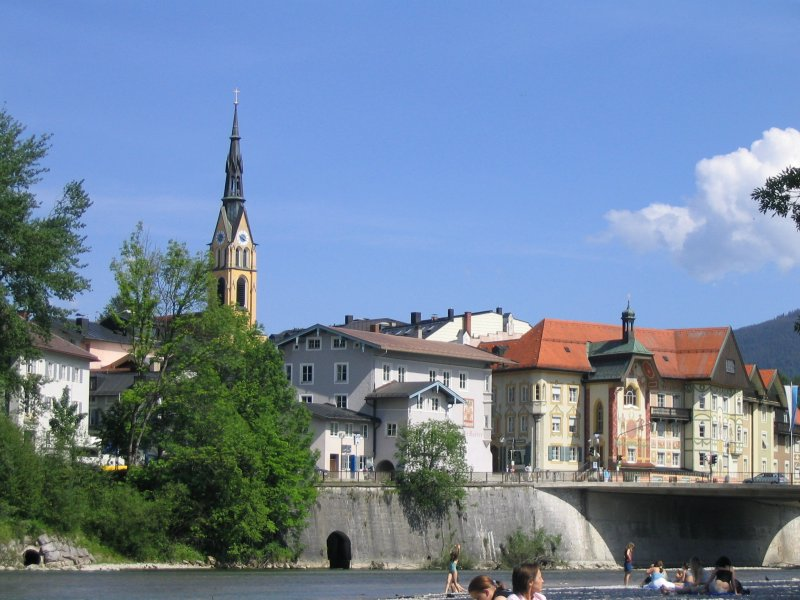 Bad Tölz summer 2003, picture was taken from the banks of the river isar. You can see the church-tower of the Stadtpfarrkirche as well as the bridge over the river isar and the entrance to the Marktstraße.